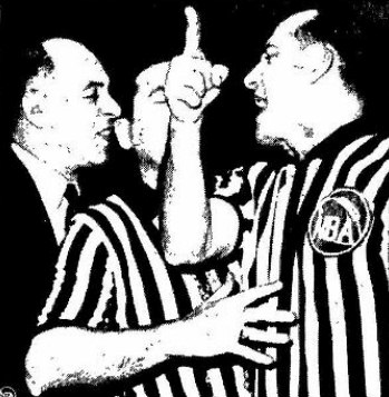 Norm Drucker ejecting Boston Celtic coach Red Auerbach from a game in 1959. Arnie Heft is the referee trying to keep them separated.